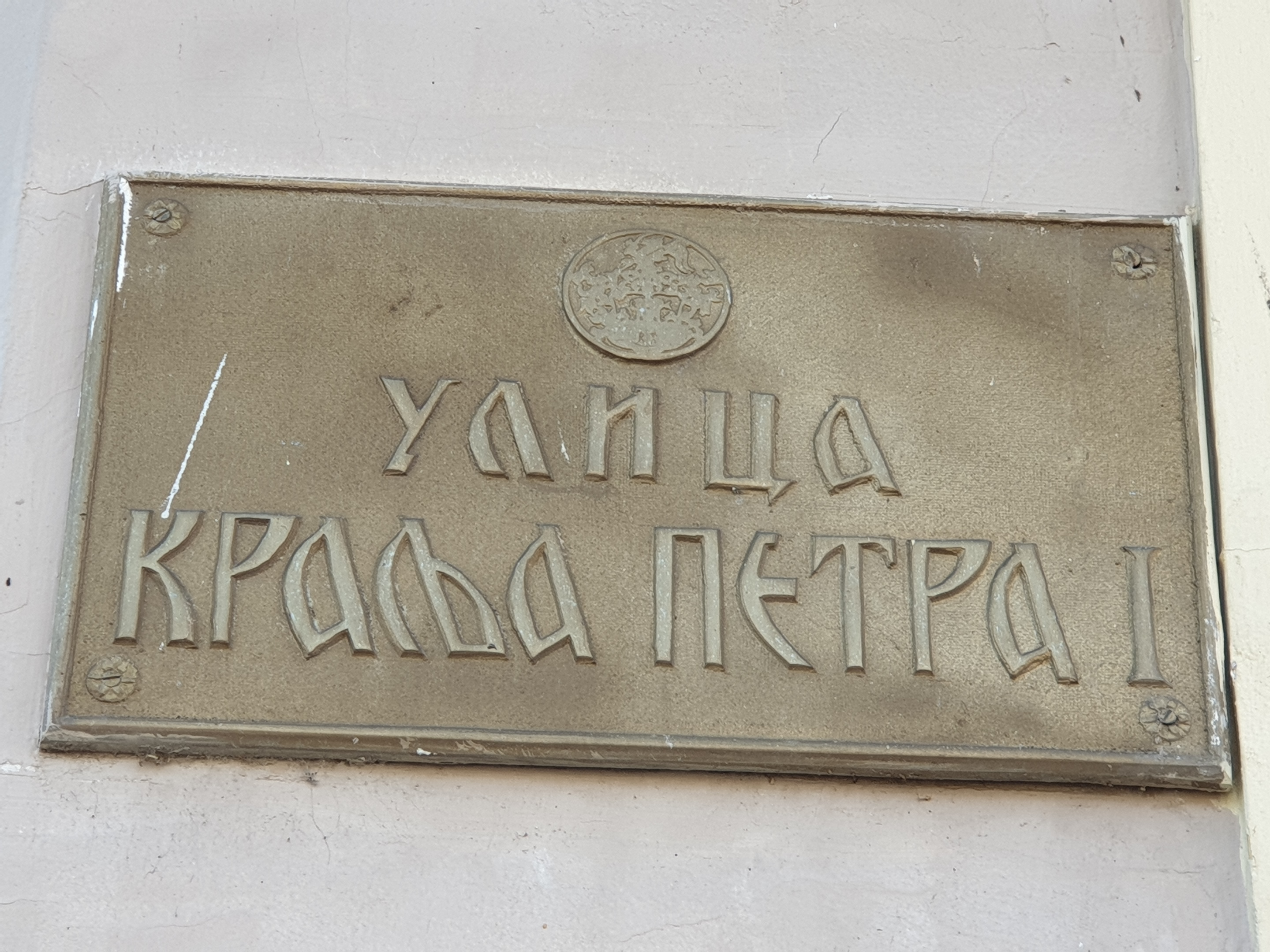 Tabla sa imenom ulice